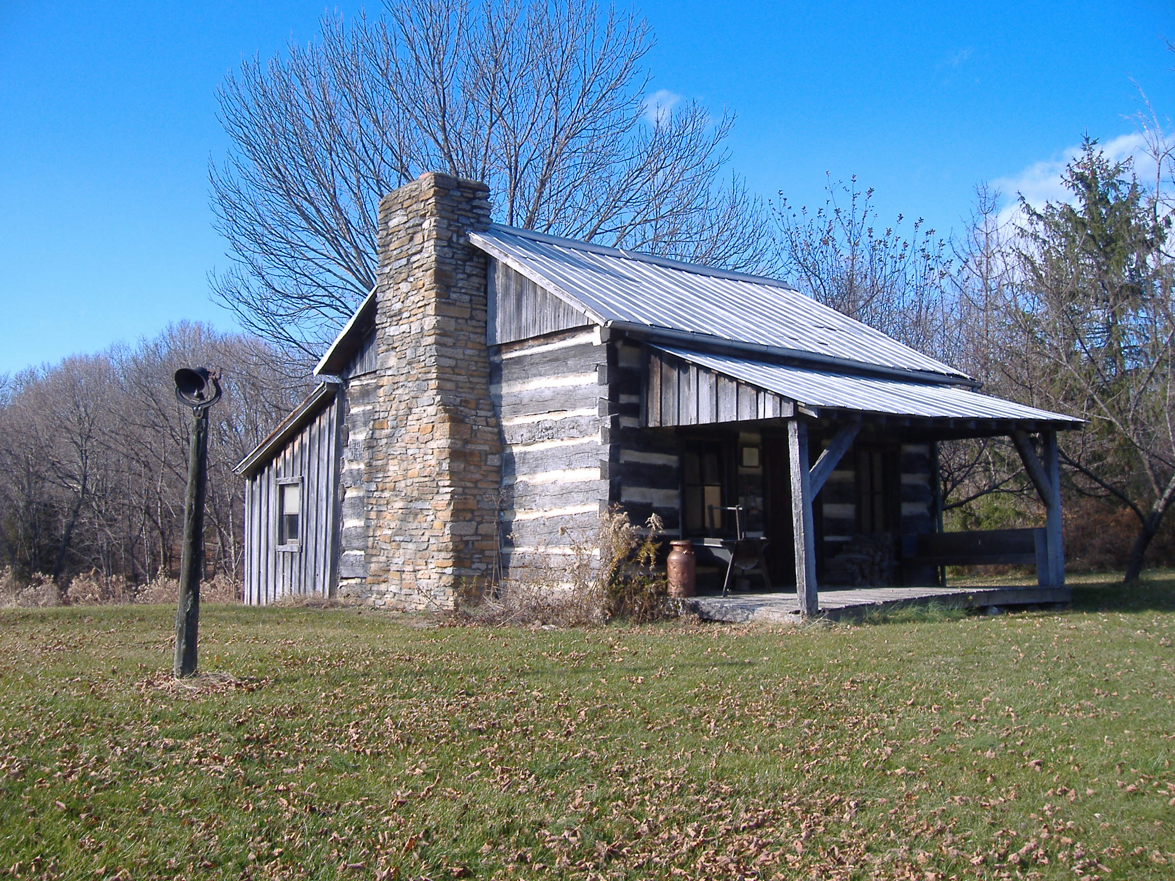 Samuel Lyle log house located at 7190 Pondlick Road in Highland County, Ohio.